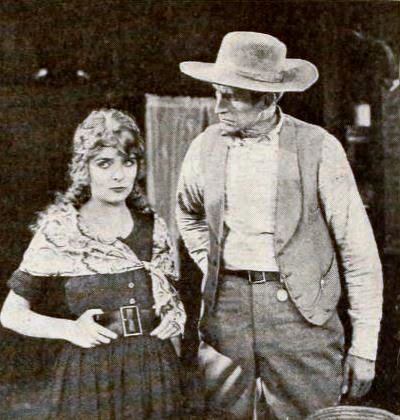 Still from the American western film Fighting Cressy (1919) with Blanche Sweet and an unidentified actor, on page 46 of the December 13, 1919 Exhibitors Herald.